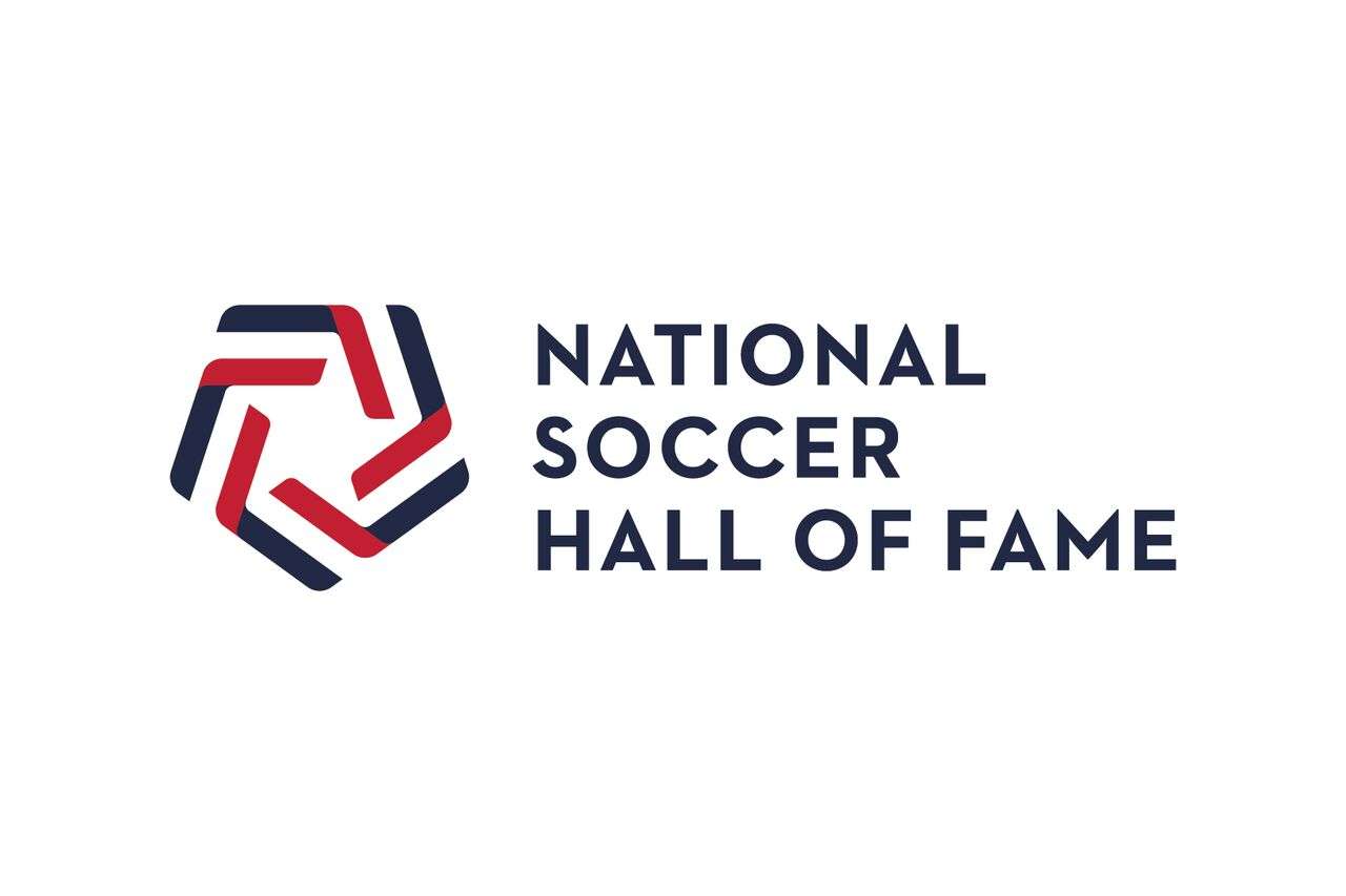 Logo released by the National Soccer Hall of Fame